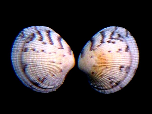 This is emphatically NOT codakia orbicularis. I do not know which species this is but it is not even in the same family.